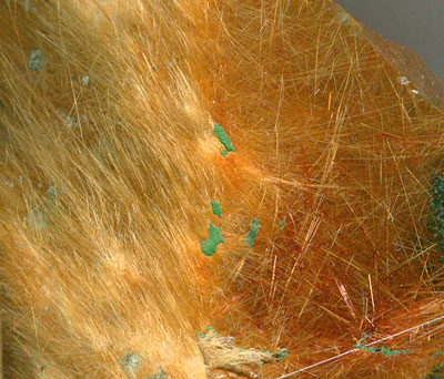 Quartz with Rutile inclusions, 6-cm specimen. From Neroika Mt., Subpolar Urals, Russia.